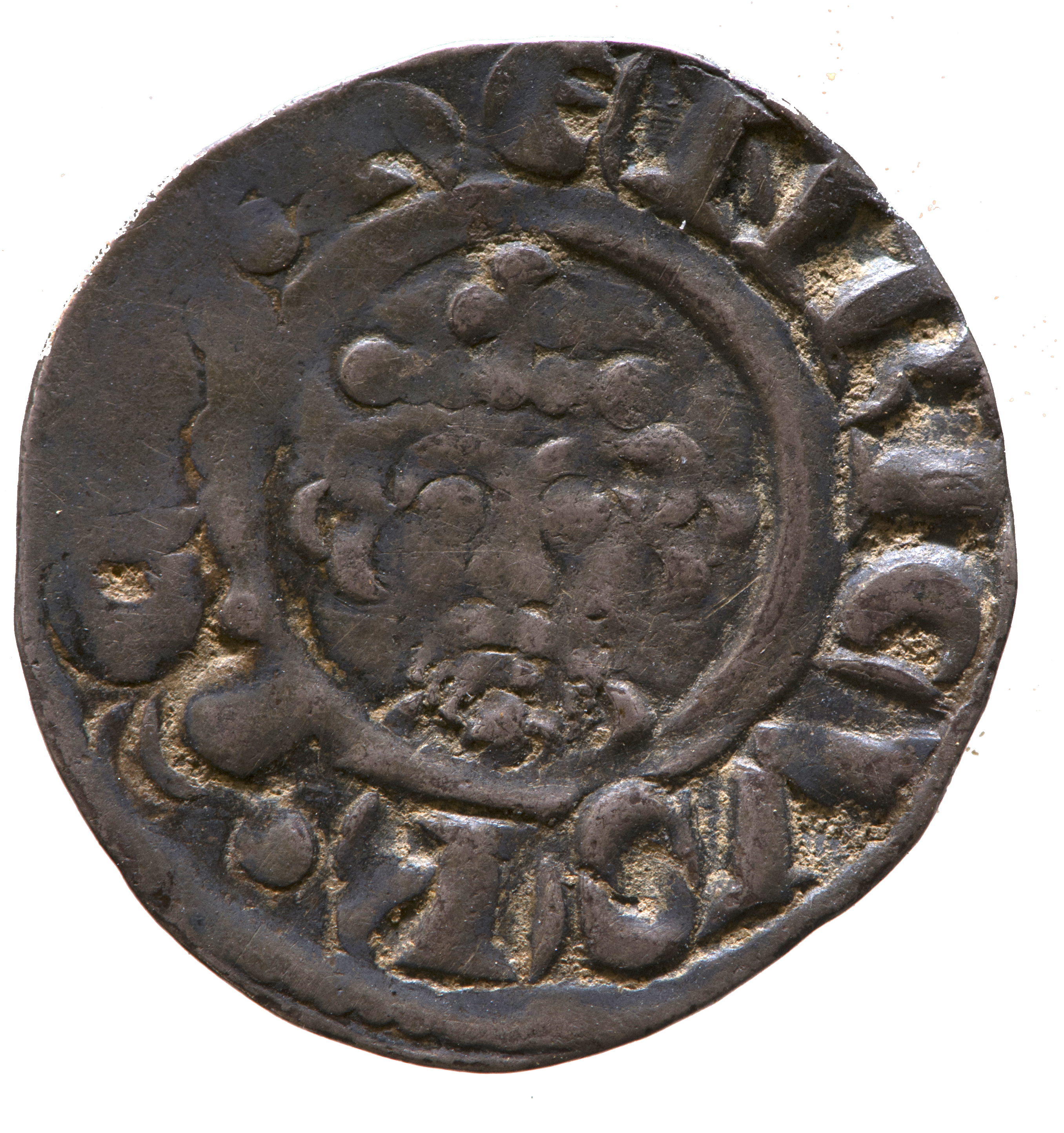 Obverse (front) of a silver penny of w: Richard I of England head facing forward